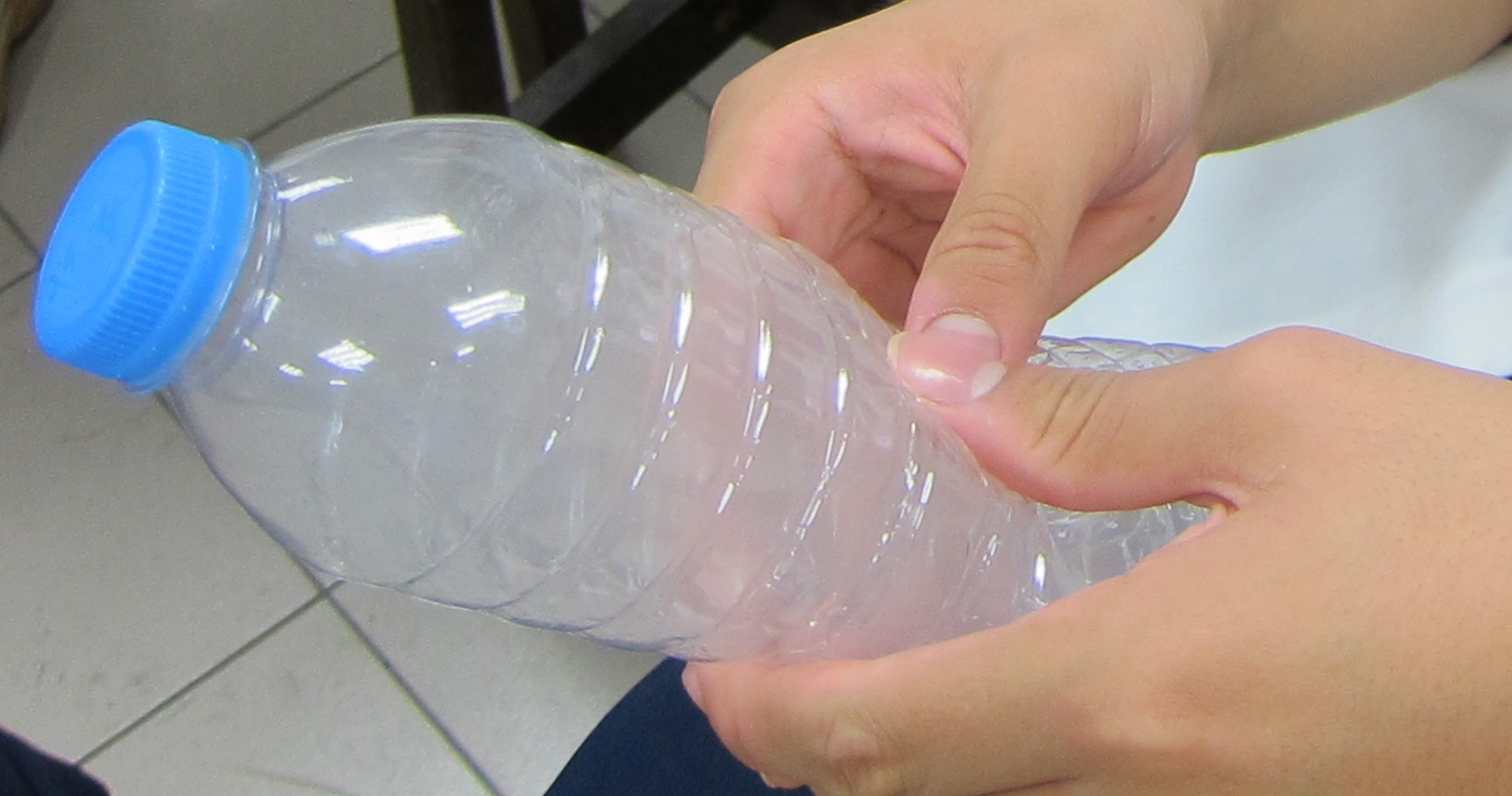 condensation core containing bottle with adiabatic expansion